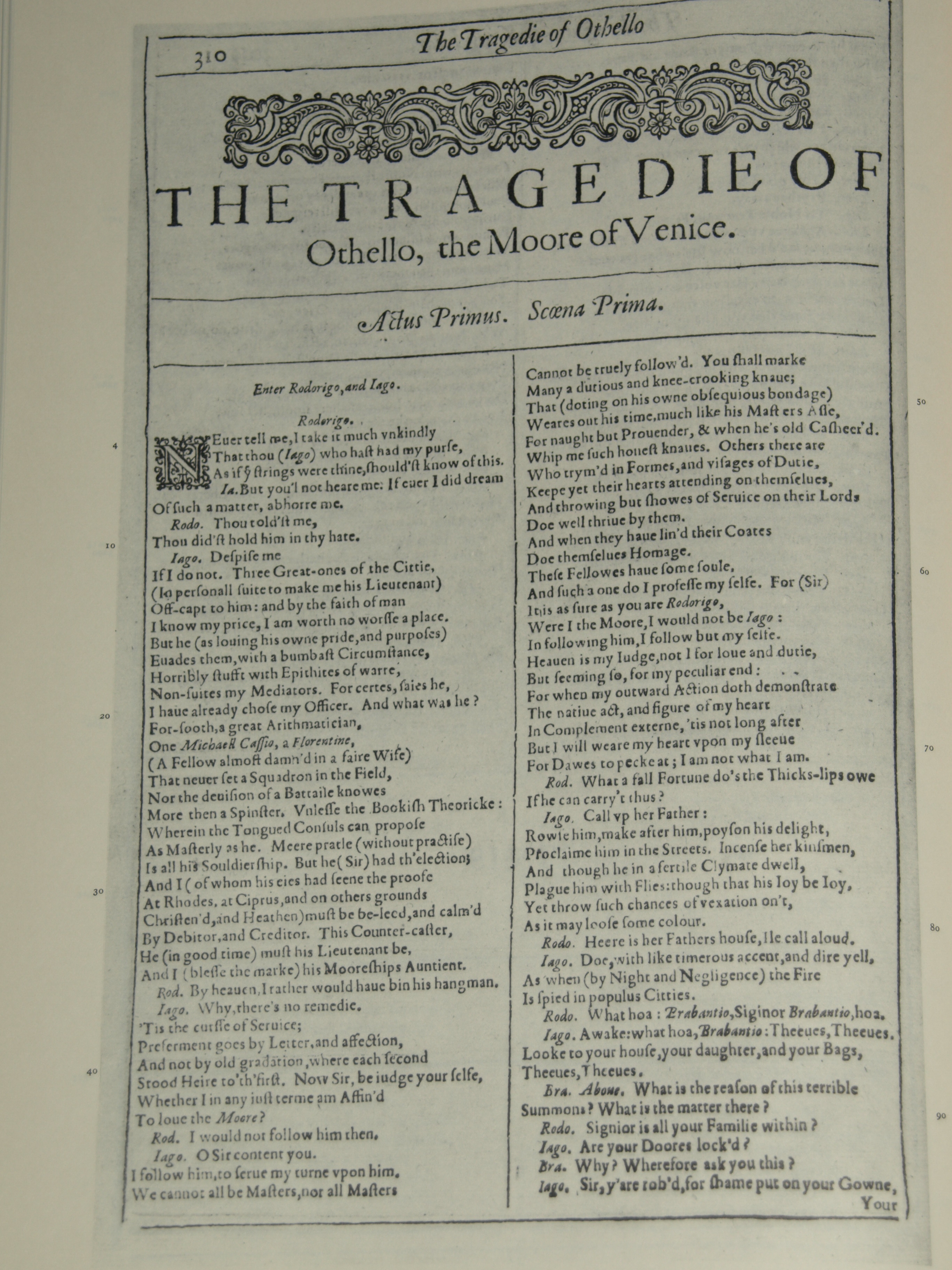 Photo of the first page of Othello from a facsimile edition of the First Folio of Shakespeare's plays, published in 1623